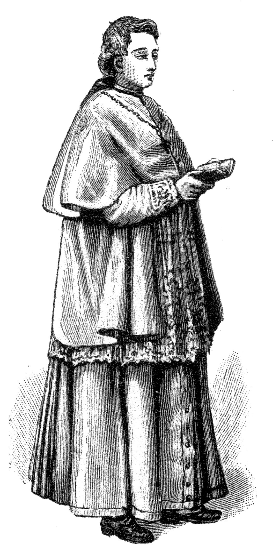 Cardinale wearing a rochette, a mantelletta and a mozzetta